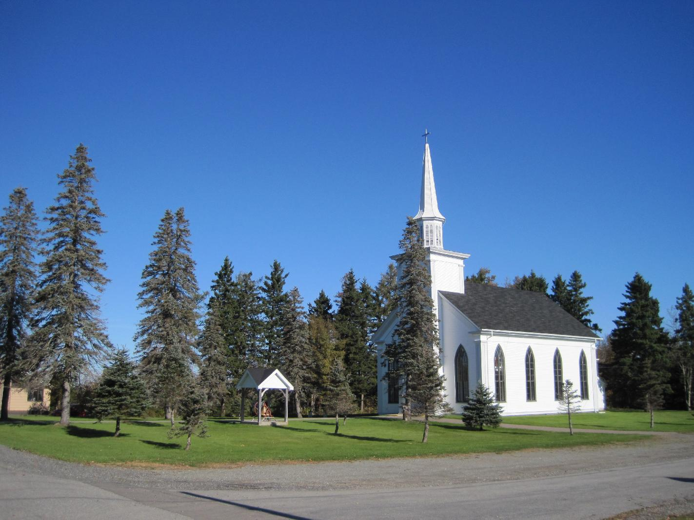 St Ann's Catholic Church, Guysborough, Nova Scotia. Built in 1873.